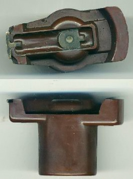 distributor rotor Scan, upload by MH 18:15, 2004 Aug 22 (UTC)